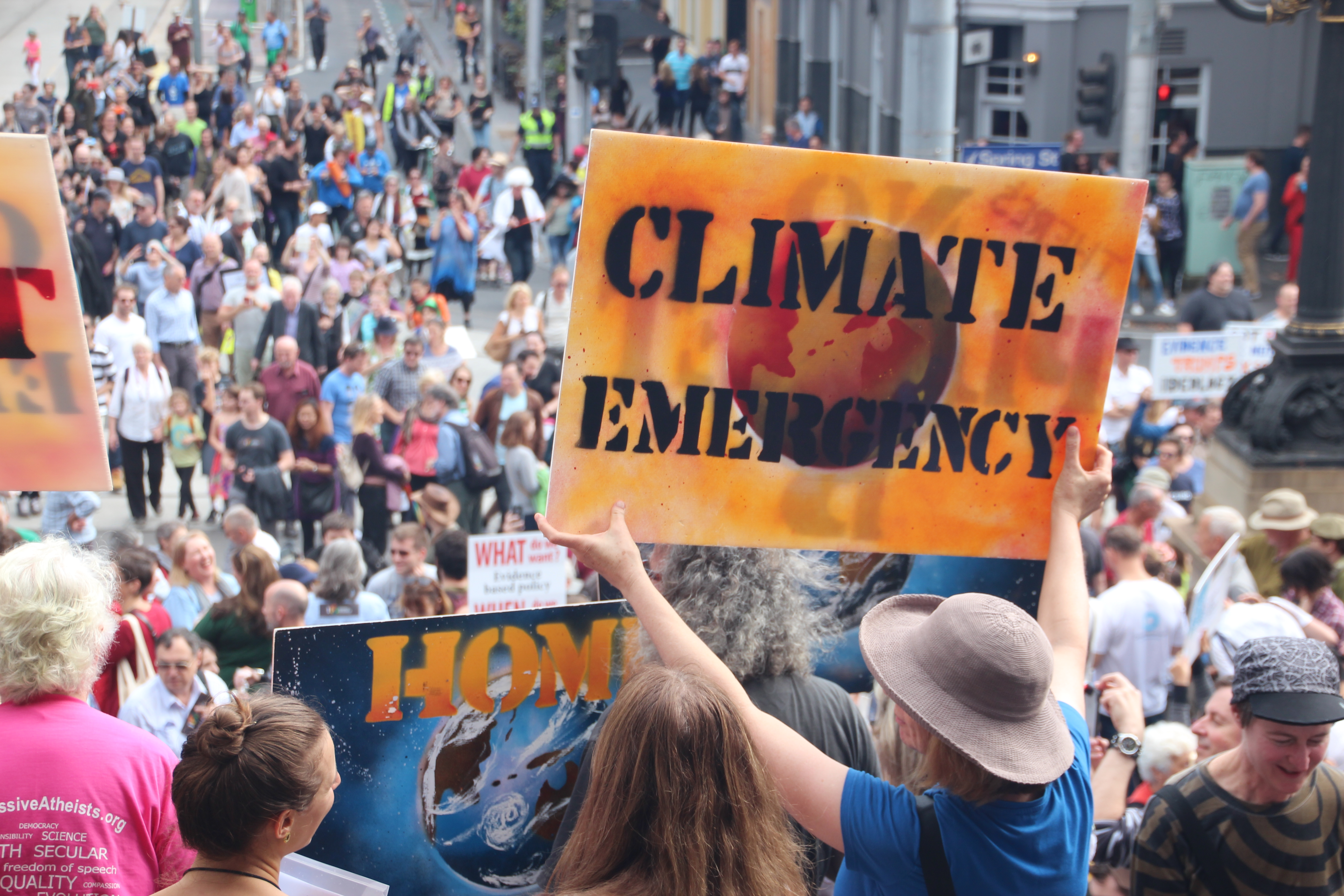 Thousands of Melburnians turned up and marched for science on April 22, #Earthday2017. Science matters to society. The march is based upon 4 major goals: science literacy, open communication, informed public policy, and stable investment in science and research. Many of those present raised the importance of climate science in signs and in the speeches given.